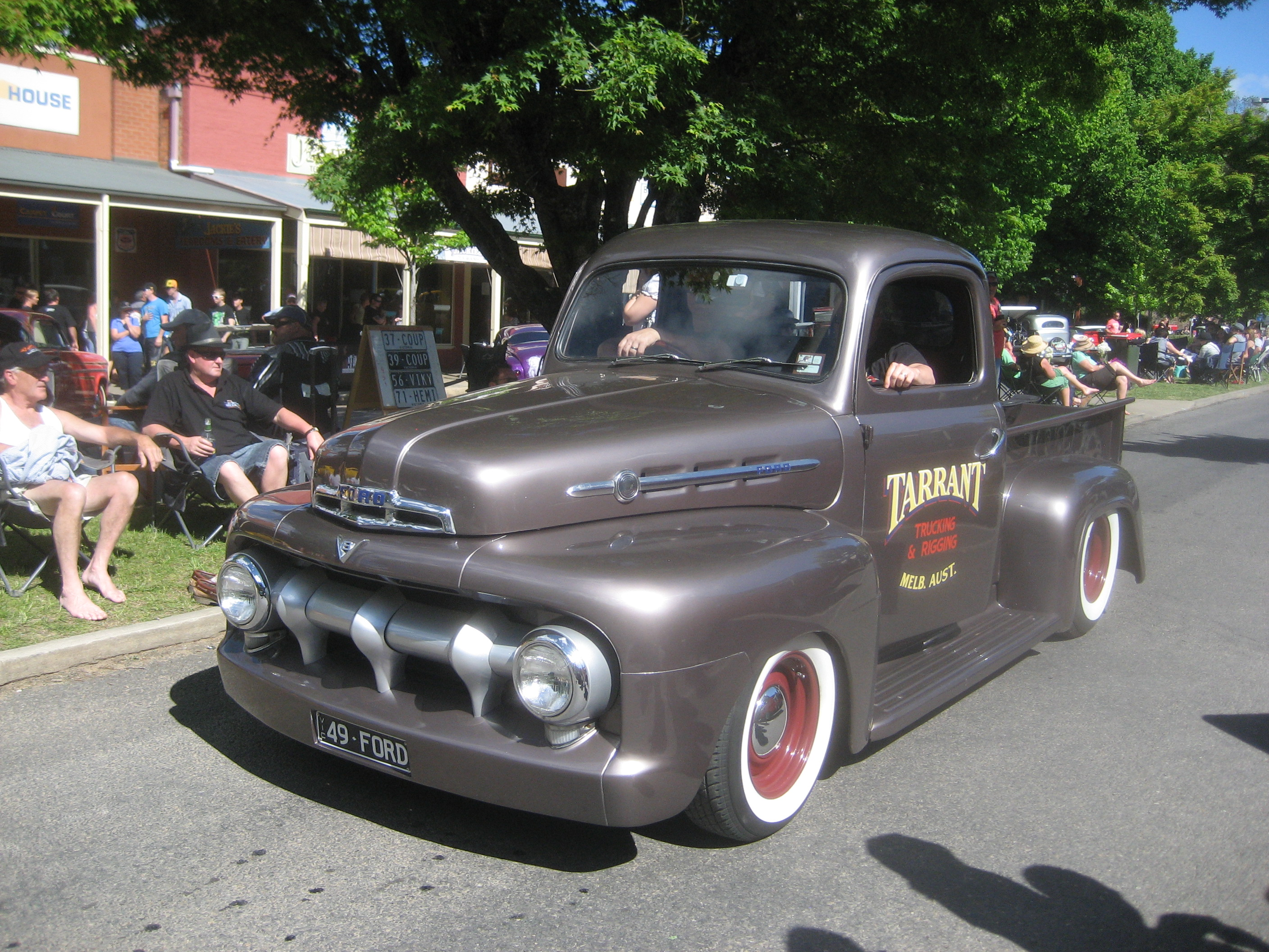 Predecessor to the F100 the F-1, Engines; 226 6 cyl or 239 Flathead V8